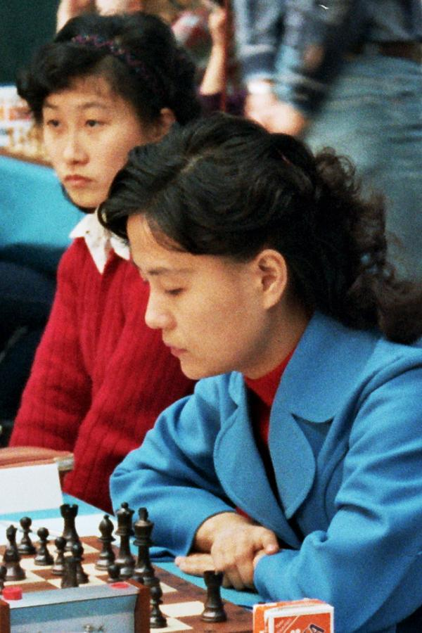 An Yangfeng and Wu Mingqian, Chess Olympiad 1982 in Luzern, Photographer Gerhard Hund.